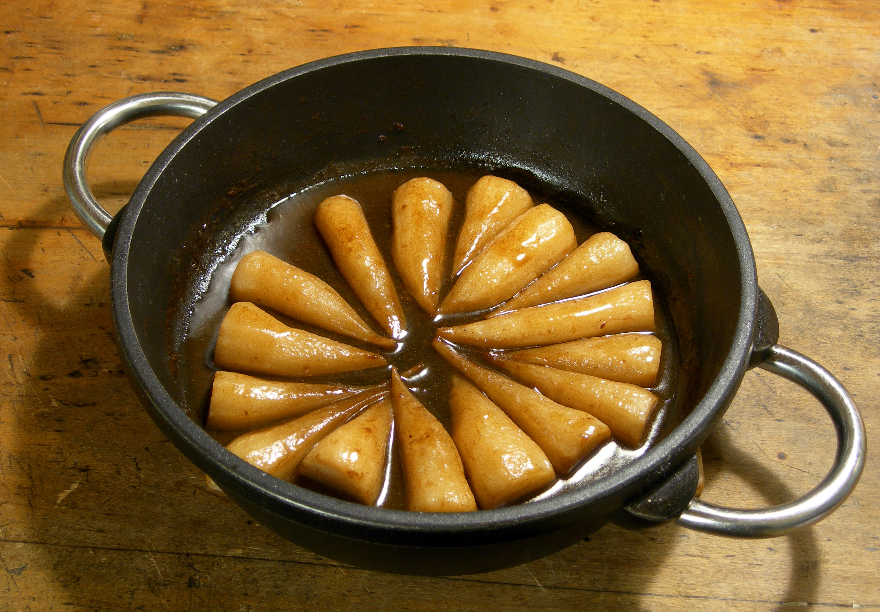 Teltow Turnips are registered as a trade mark since 1993